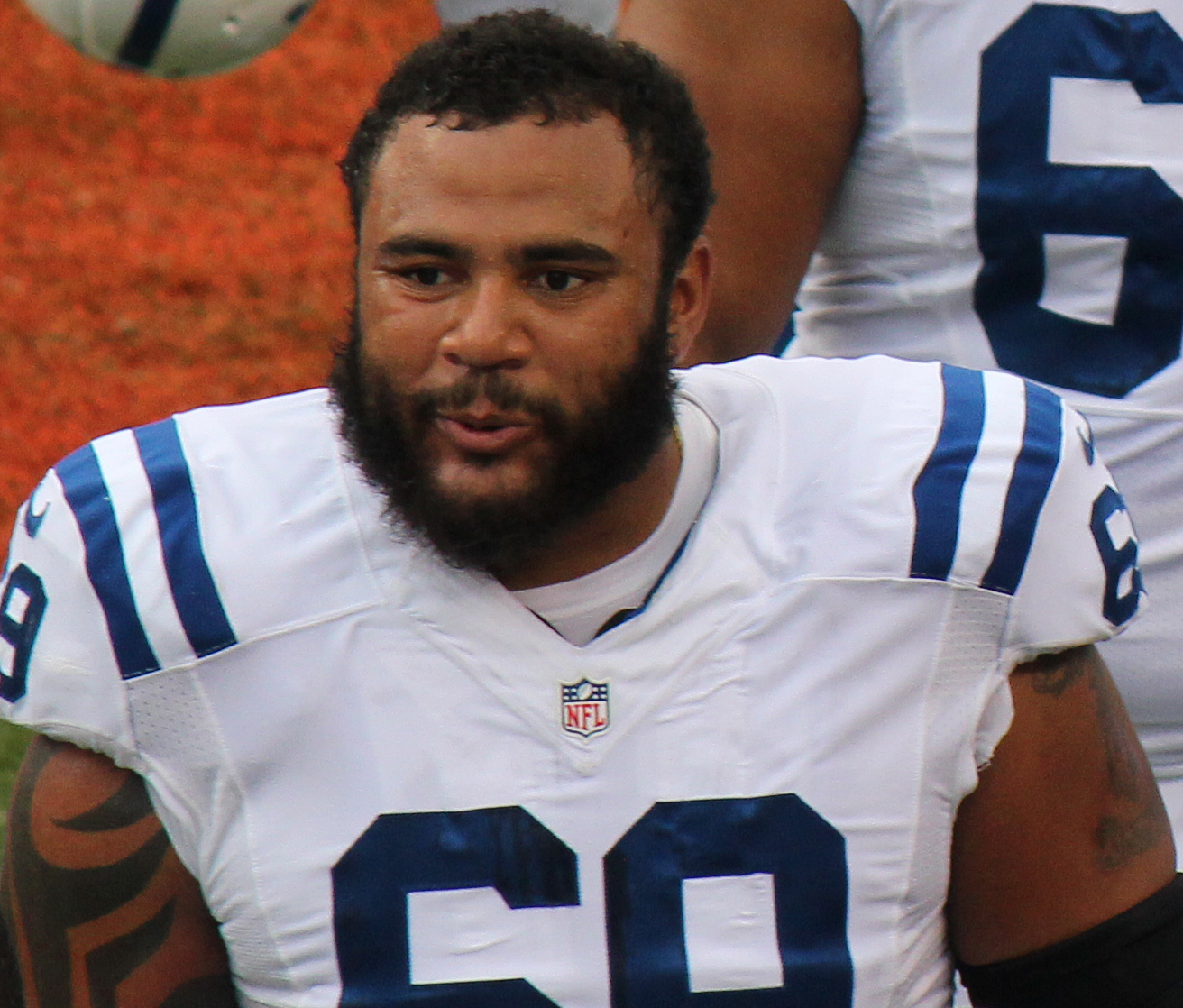 Hugh Thornton, a player on the National Football League.